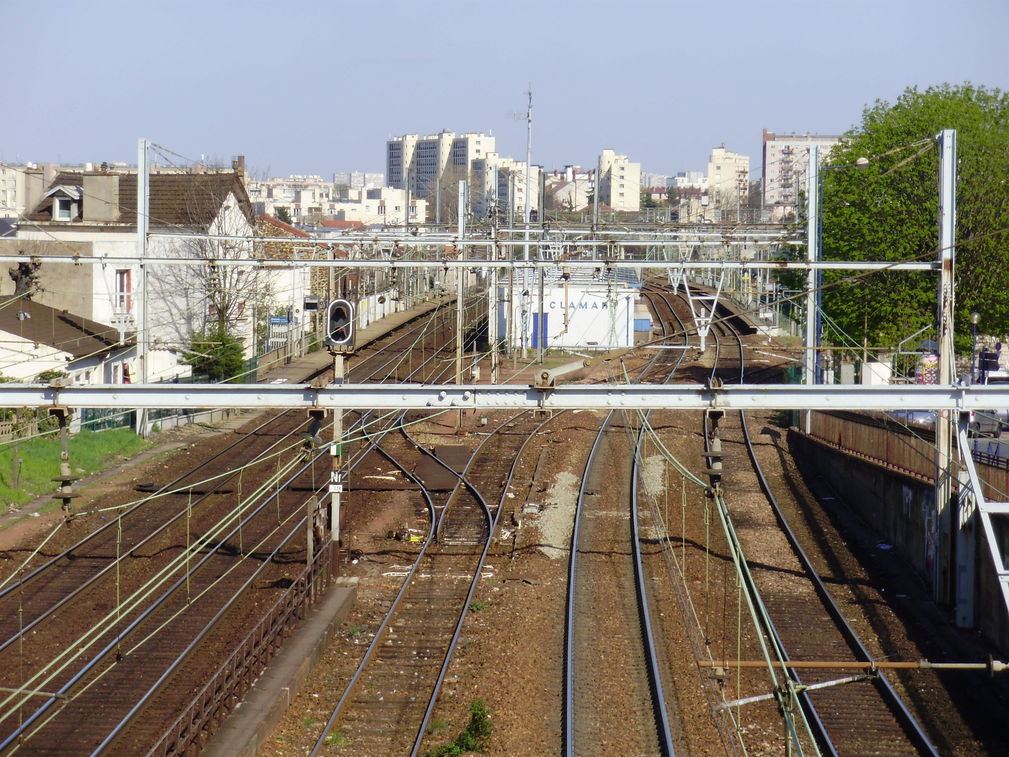 Clamart station - view on west side, Hauts-de-Seine, France